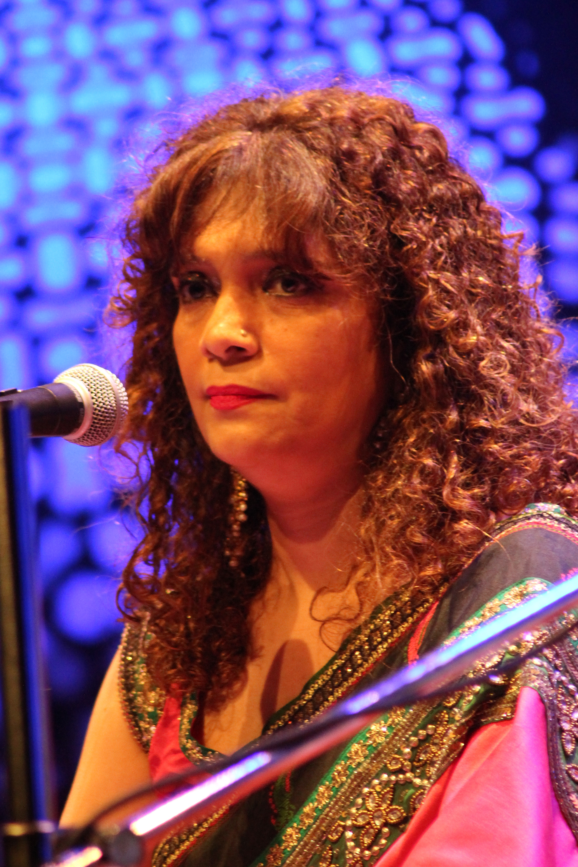 in a concert at Ravindra Bhavan Bhopal September 2016